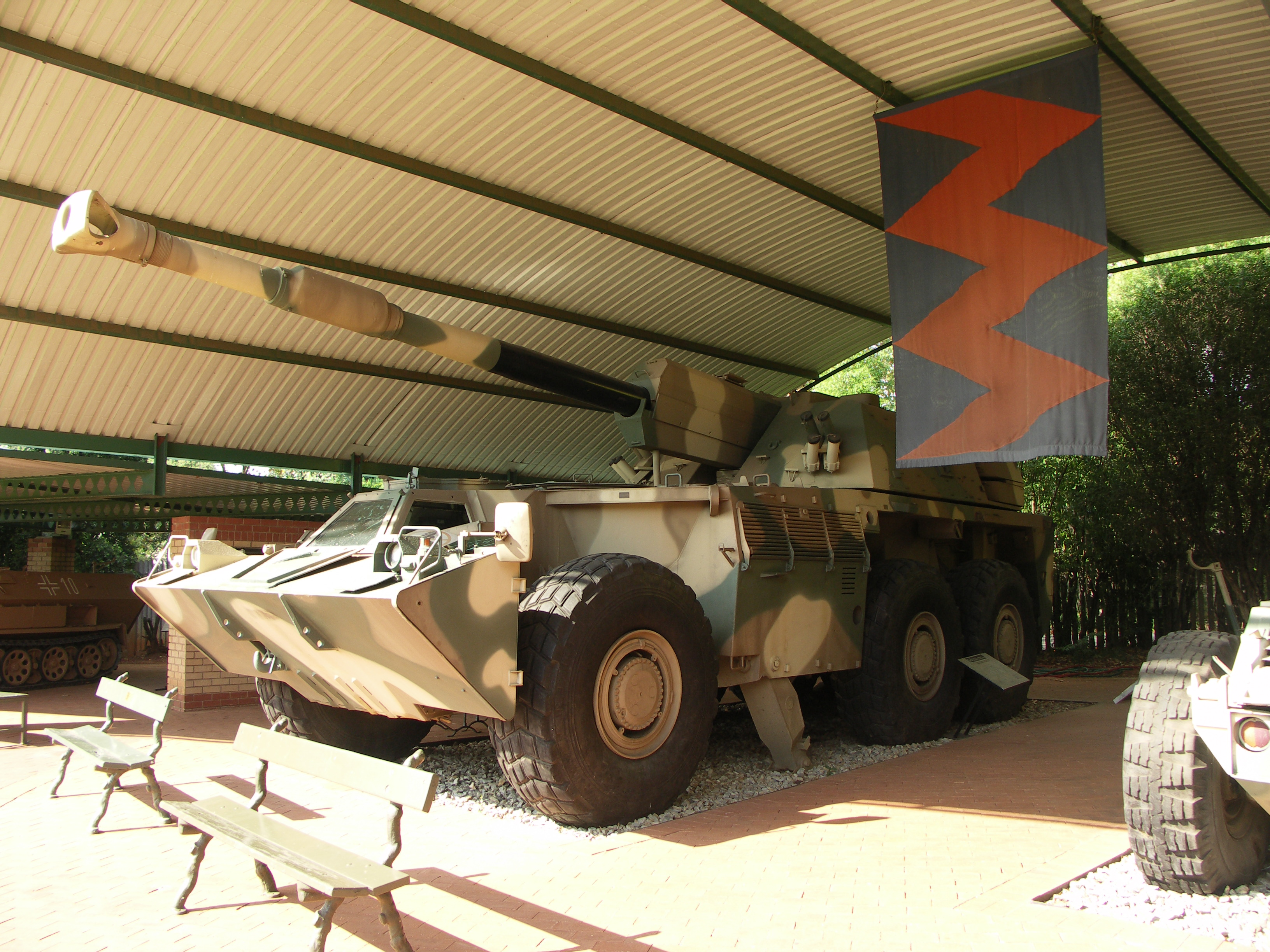 G6 howitzer at the South African Military Museum